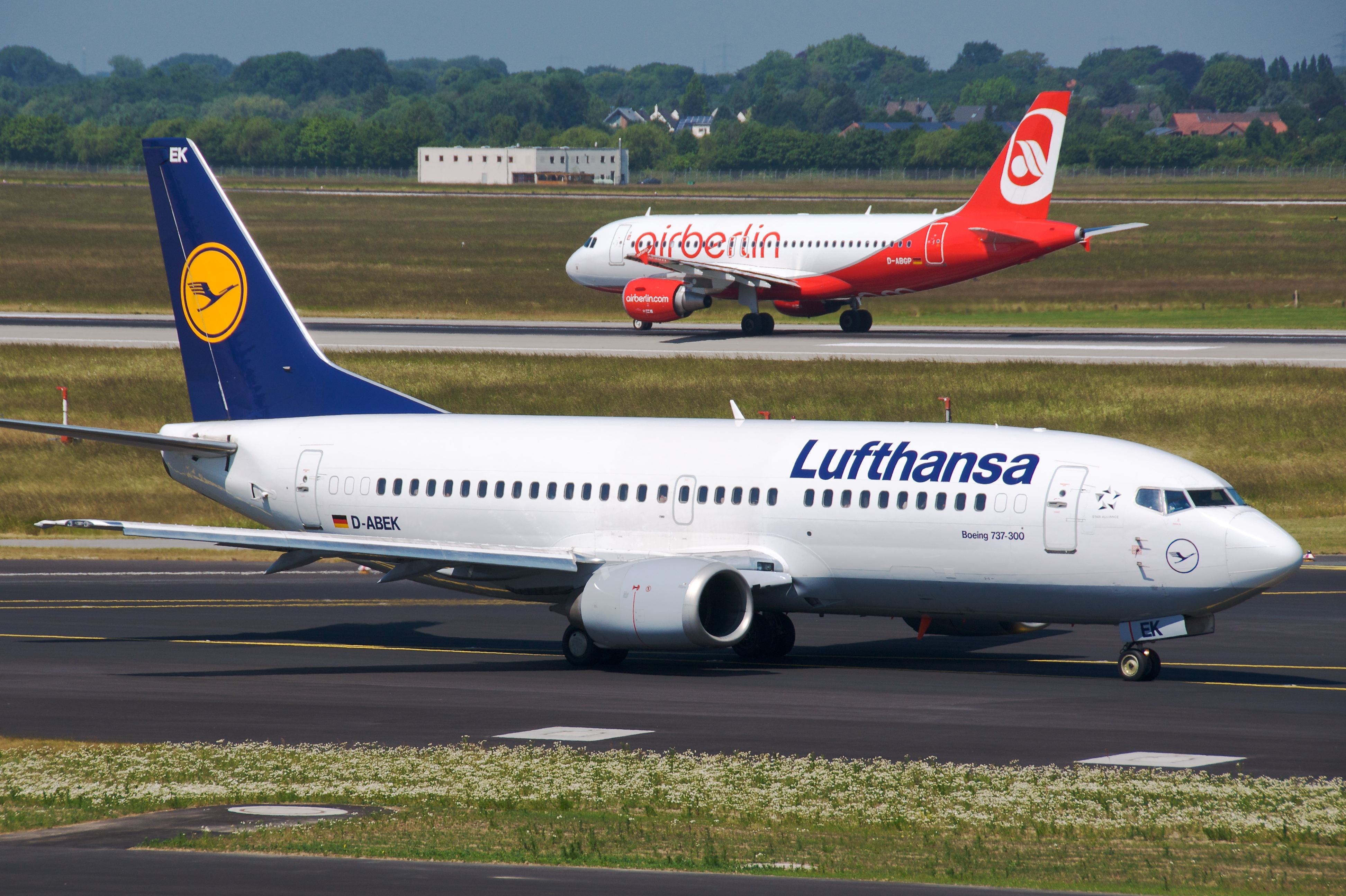 Lufthansa B737-300 D-ABEK, with Air Berlin A320 D-ABGP in background, in Düsseldorf International Airport.